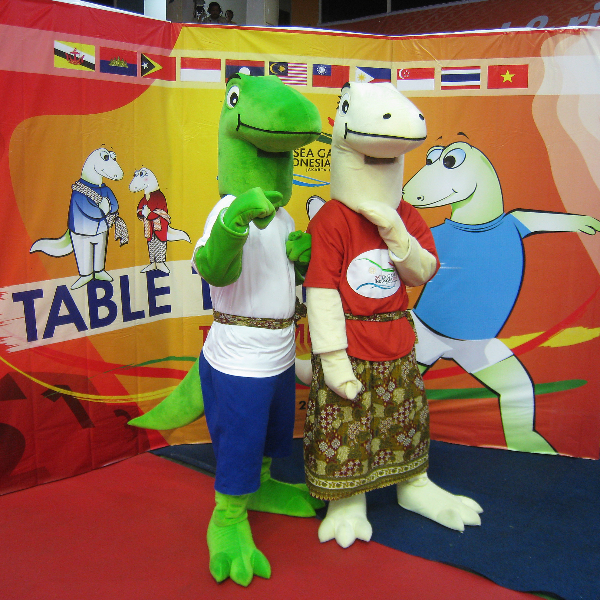 Modo and Modi 26th SEA Games Indonesia 2011 mascot in Table Tennis venue in Sumantri Brodjonegoro Sport Hall, Kuningan, Jakarta. Modo and Modi is derived from Komodo dragon, the largest lizard endemic to Indonesia.